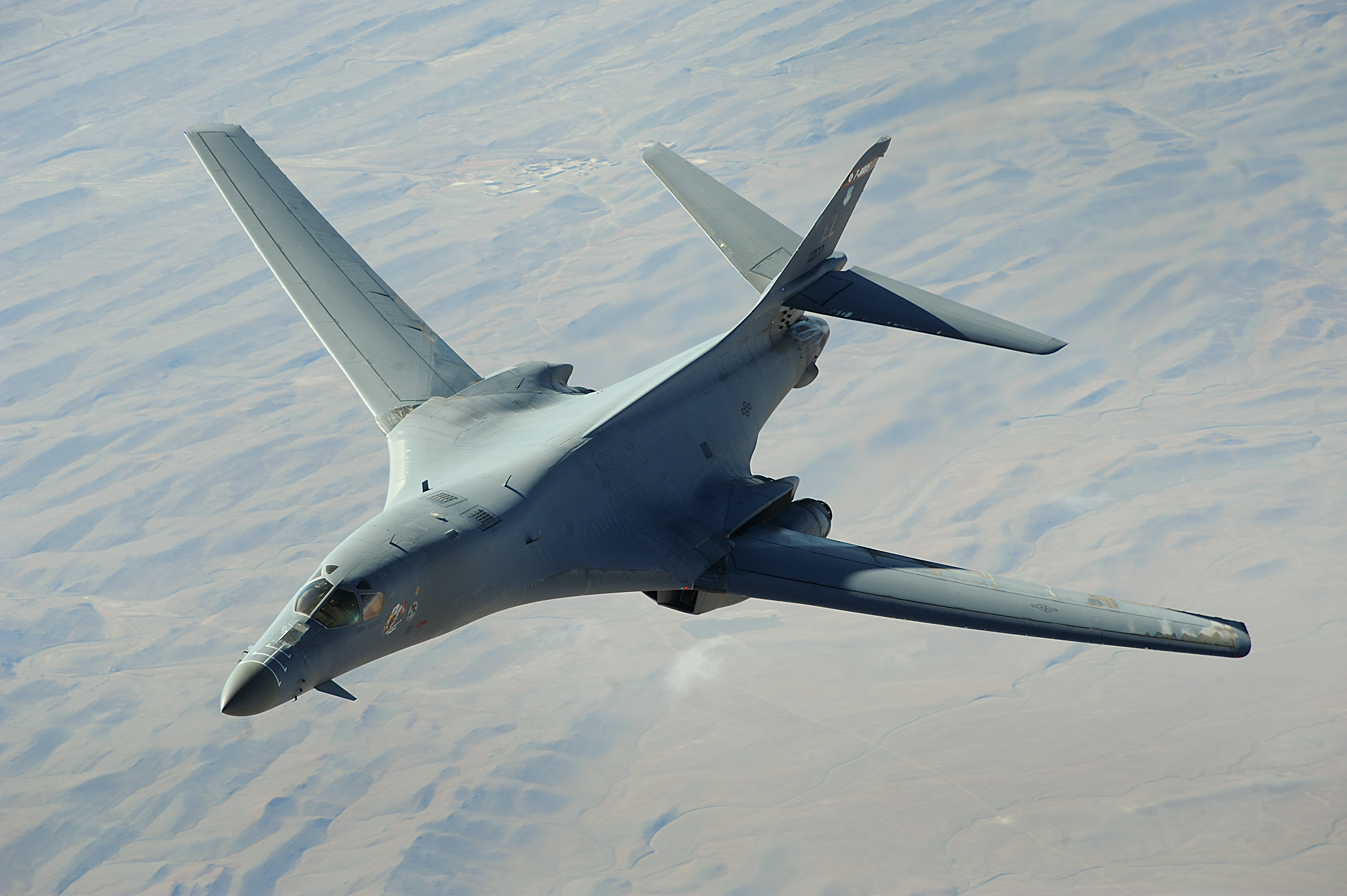 A U.S. Air Force B-1B Lancer bomber from the 34th Expeditionary Squadron flies a combat patrol over Afghanistan on Dec. 10, 2008.